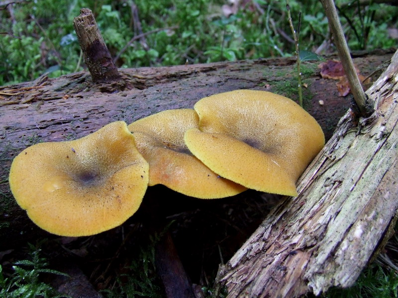 Tricholomopsis decora. Karmėlava forest, Lithuania.